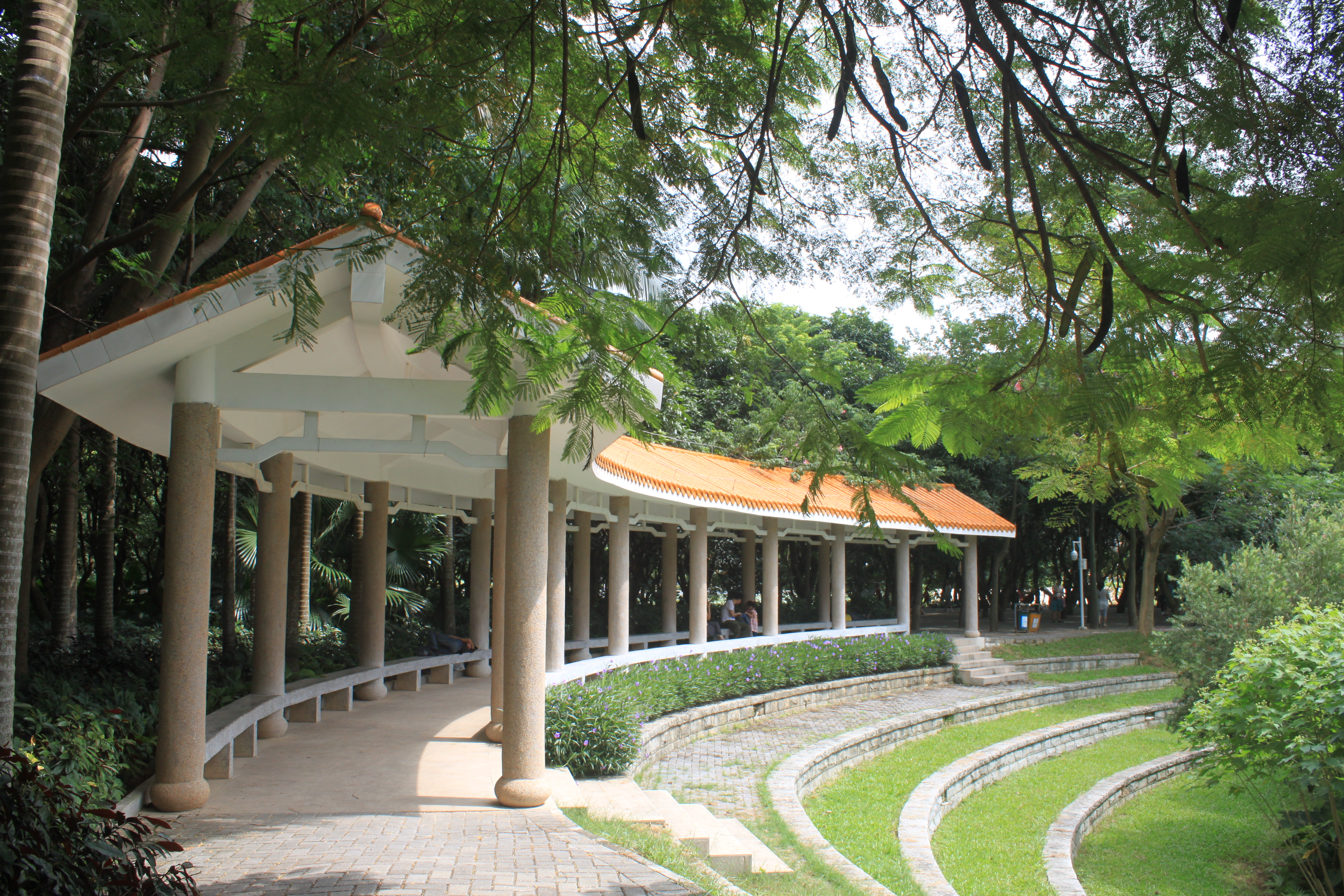 A Huilang at Honghu Park. 中文（中国大陆）: 深圳市洪湖公园的回廊。